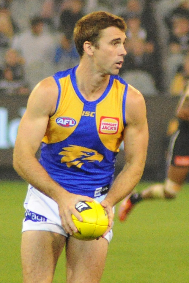 Jamie Cripps during the AFL round five match between Carlton and West Coast on 21 April 2018 at the Melbourne Cricket Ground in Melbourne, Victoria.